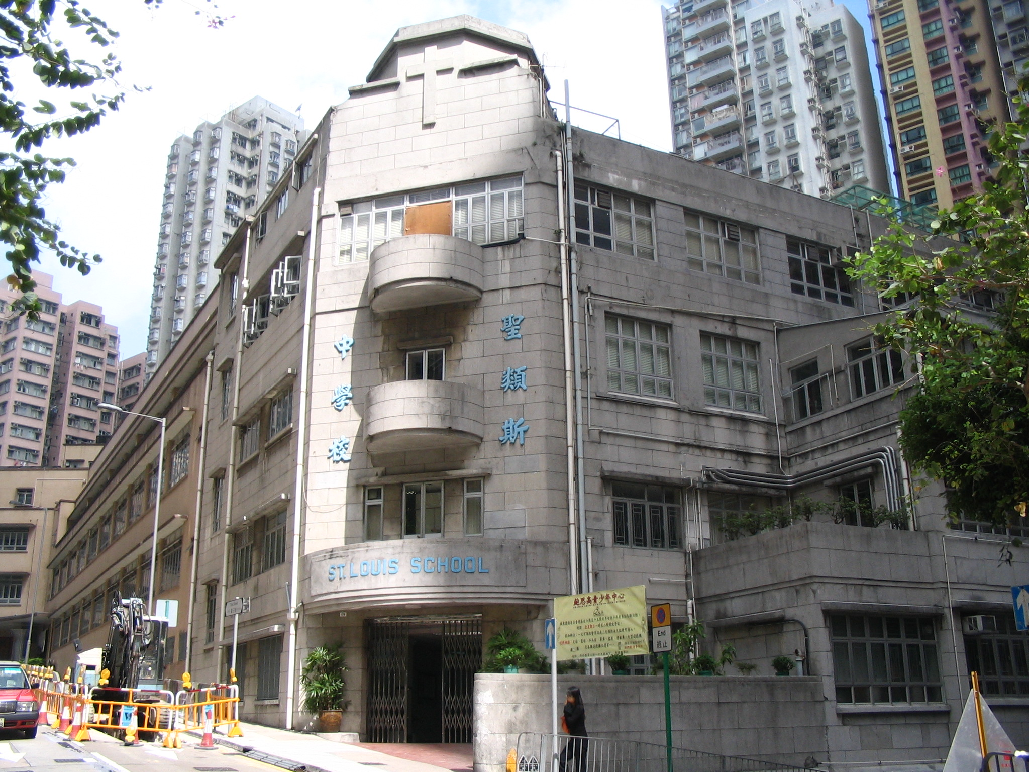 Photo of St. Louis School